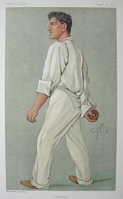 Caricature of Sammy Woods by Henry Charles Seppings Wright (Stuff) for Vanity Fair.